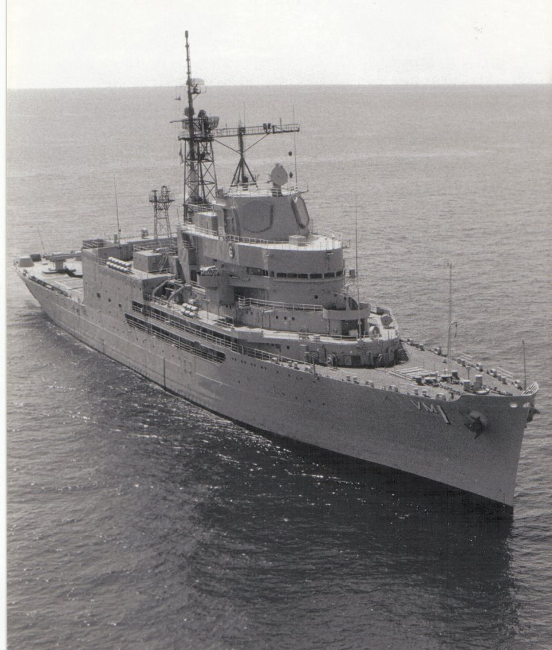 The U.S. Navy missile test ship USS Norton Sound (AVM-1) underway in the 1980s, after the Mk 41 vertical launching system was installed forward.